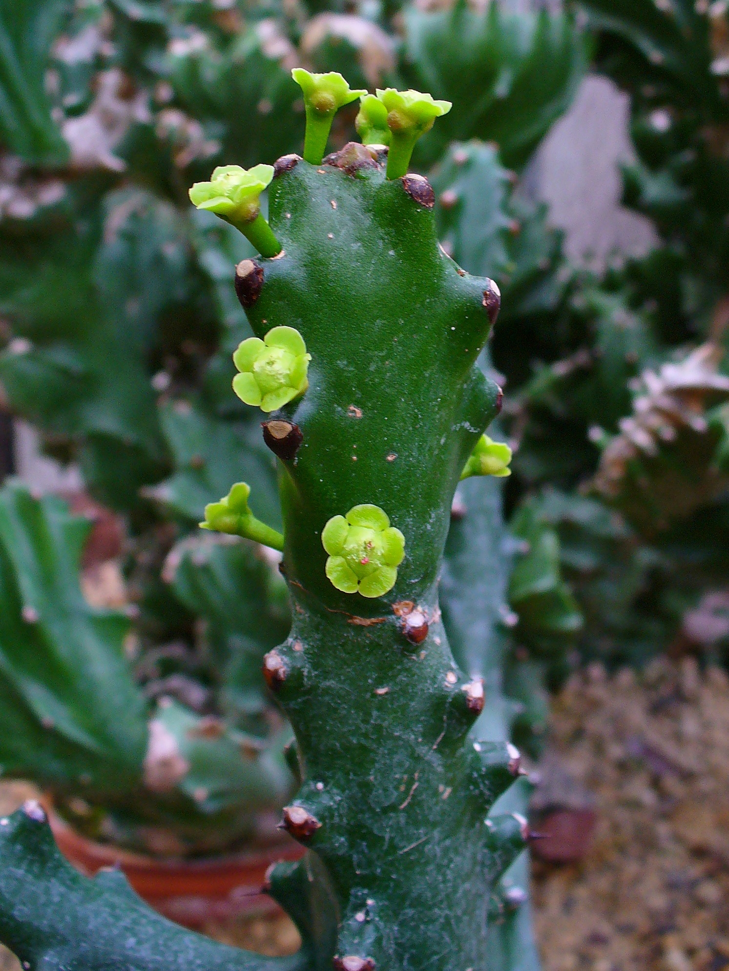 Habitus; Botanical Garden KIT, Karlsruhe, Germany.